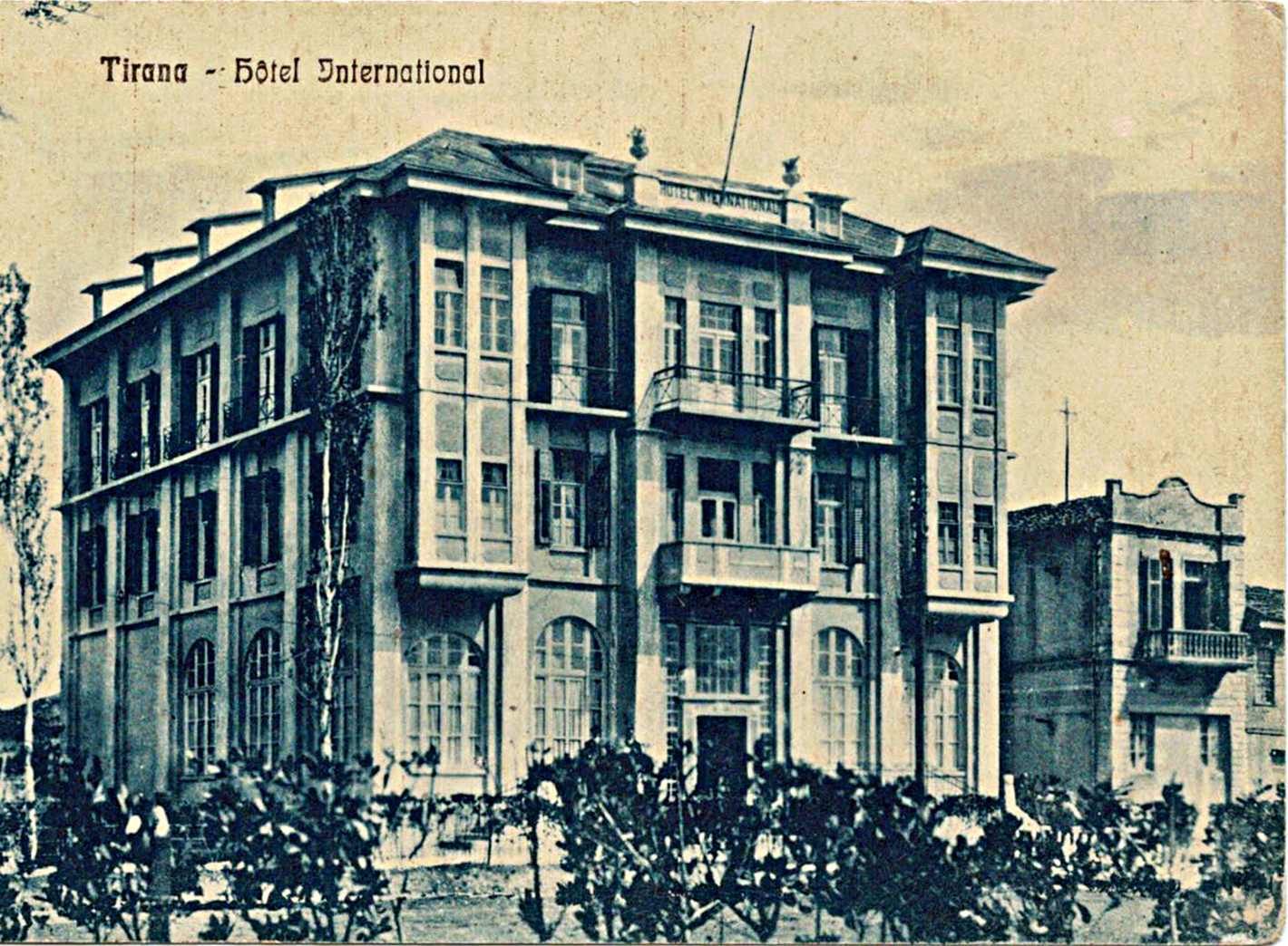 Old postcard (1920ies or 1930ies) showing the Hotel International in Tirana